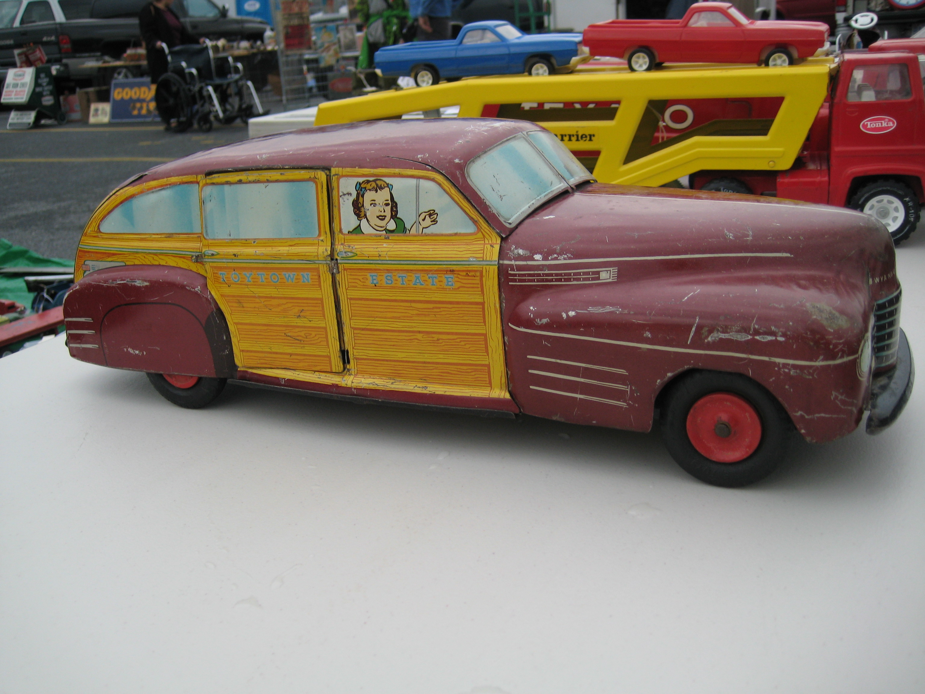 Tin car made by Wyandotte Toys (All Metal Products Company)